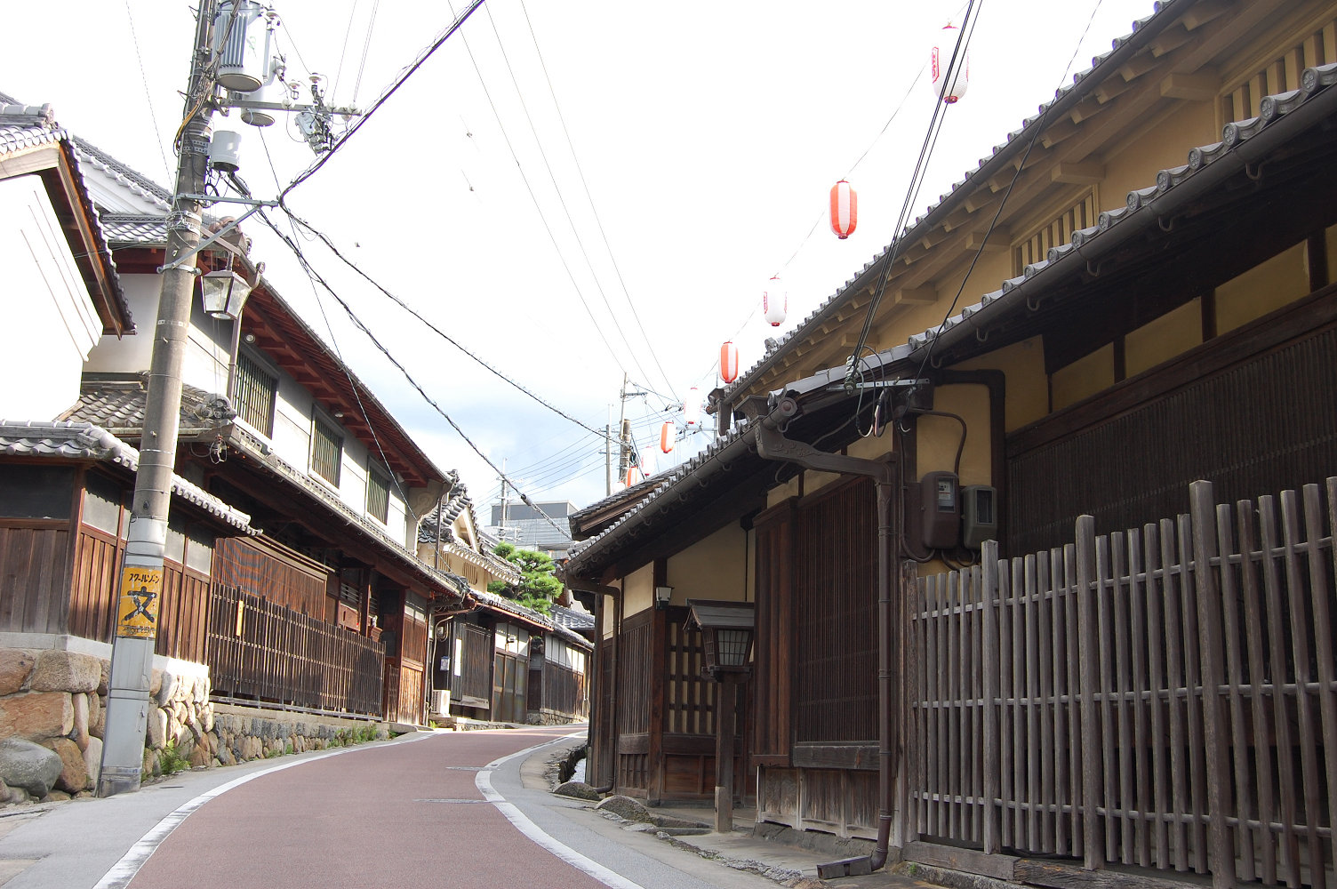 Kōya Kaidō Okukawachi (Kawachinagano-Mikkaichi)